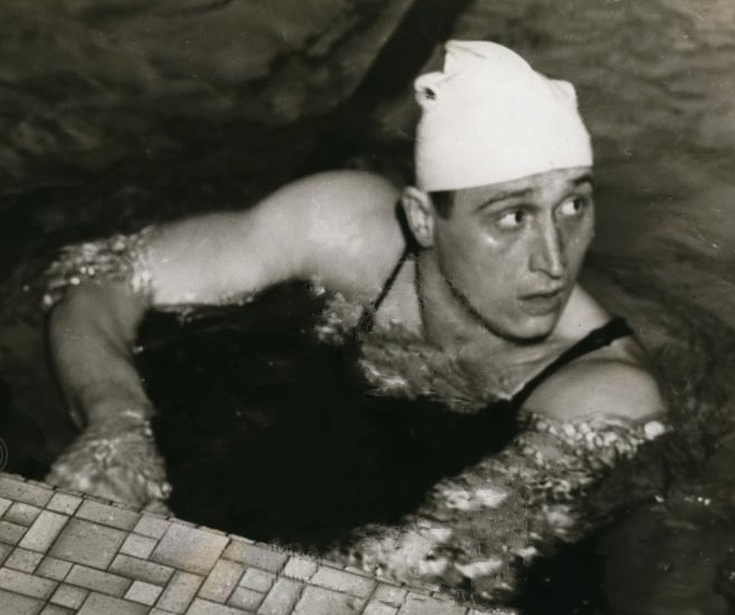 1939 Press Photo NY Athletic Club swimmer Peter Fick retains AAU freestyle title